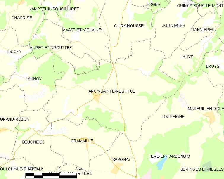 Map of French commune: Arcy-Sainte-Restitue Map commune FR insee code 02022.png